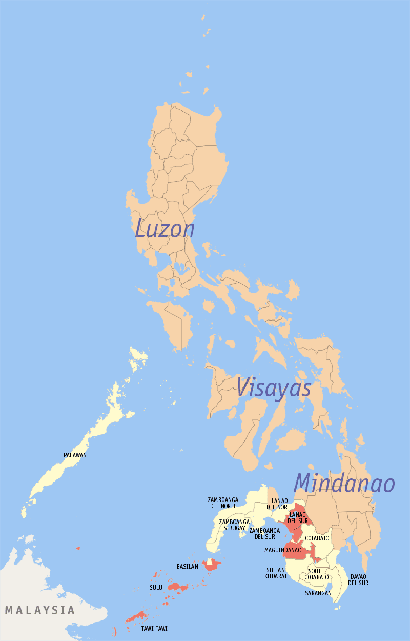 Map of the Philippines showing the Autonomous Region in Muslim Mindanao. The present territory of ARMM is shown in red. Shown in yellow are other areas intended to be part of it in accordance with the 1976 Tripoli Agreement, but opposed inclusion through plebiscites. Made by User:TheCoffee and released under the GFDL.